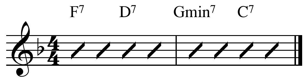 Jazz-blues turnaround: I-VI-ii-V7.